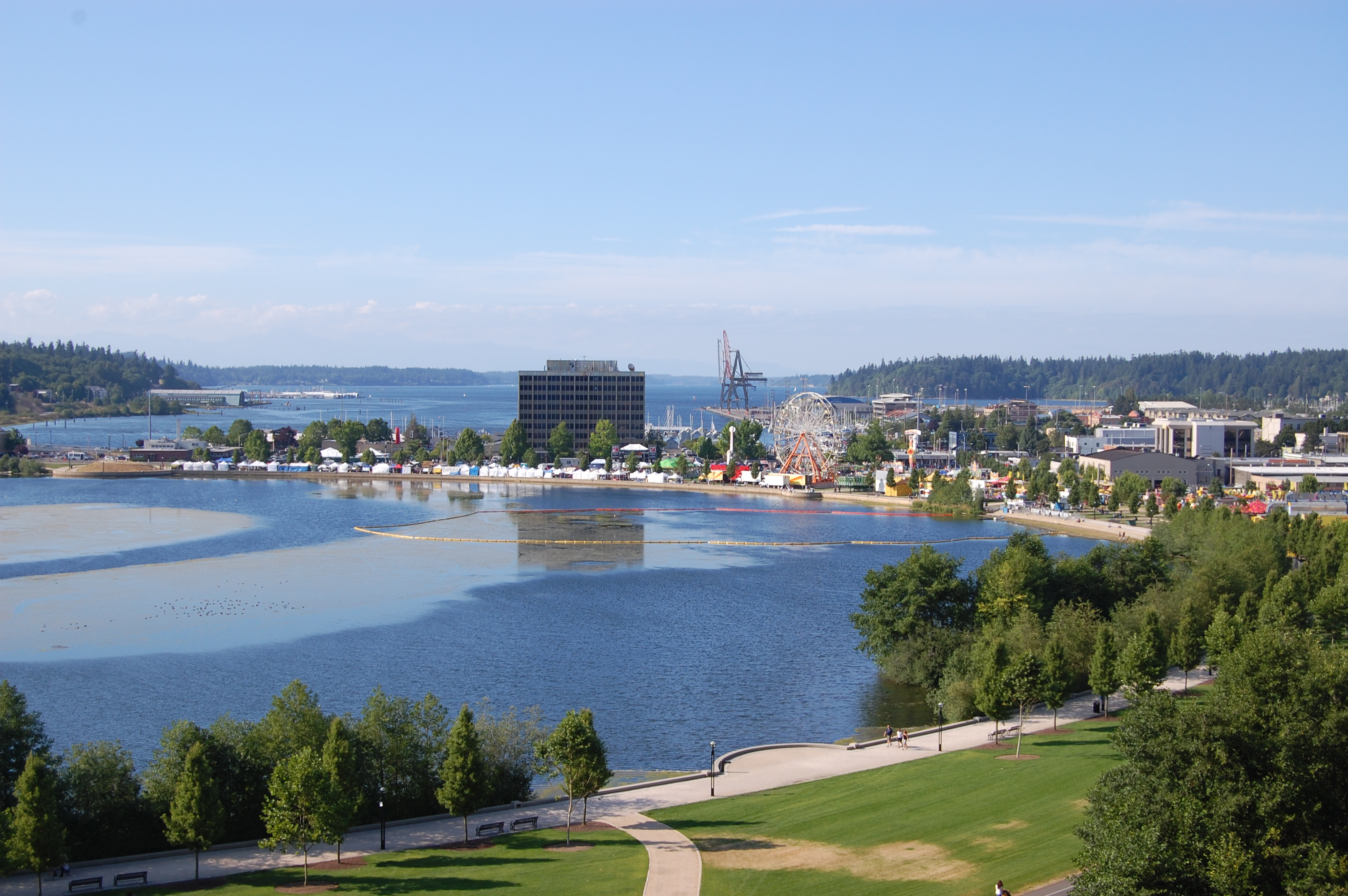 The 51st Annual Lakefair on the shores of Capitol Lake in Olympia